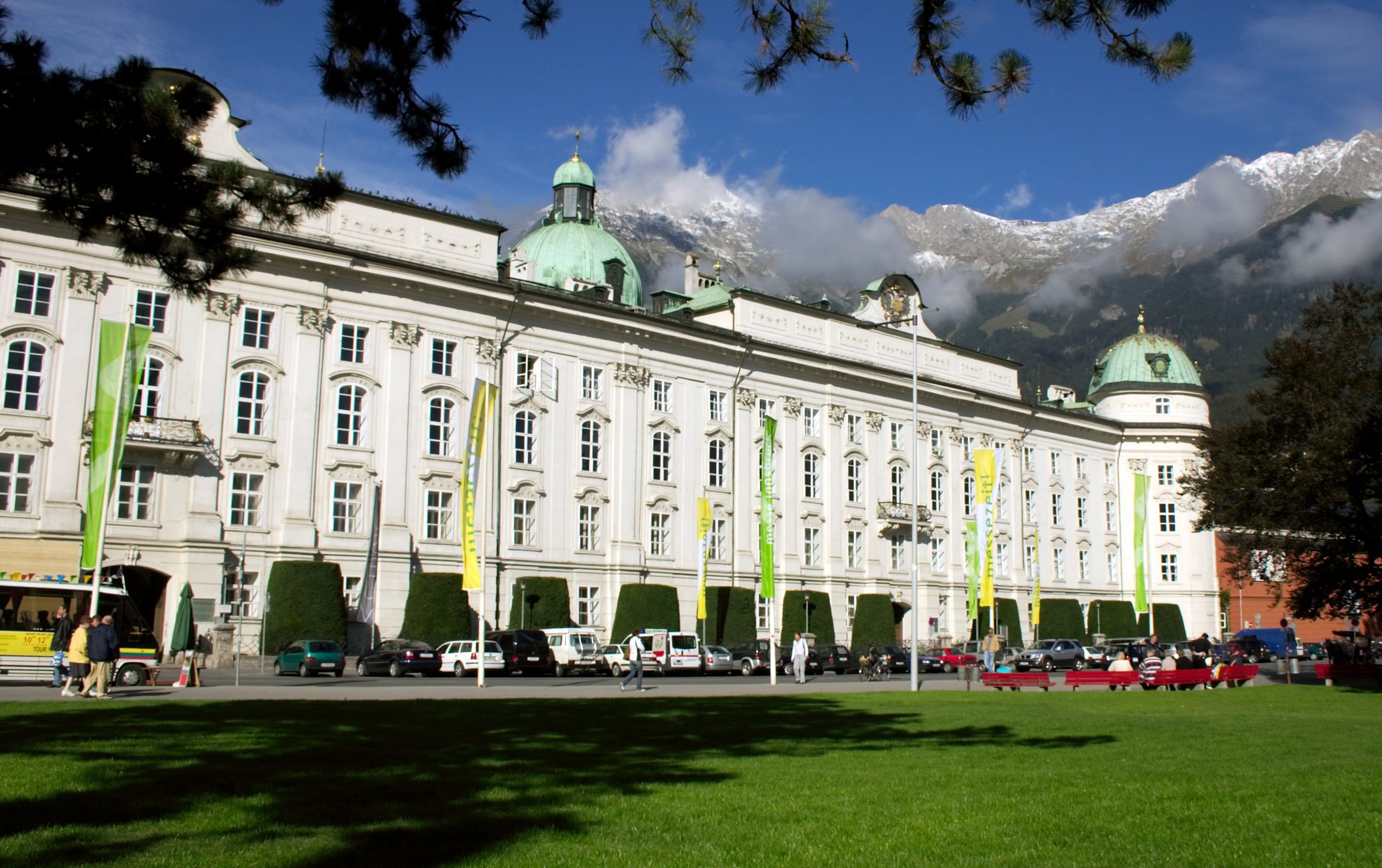 The Hofburg in Innsbruck, Austria